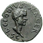 Clodius Macer. April-October 68 AD. AR Denarius (3.19 gm). Carthage mint. Obv.: L CLODIVS MACER S C, bare head of Macer right RIC I 39; BMCRE pg. 285 note; A. Gara, "La Monetazione di Clodius Macer," RIN (1970), pg. 67, 7 var. (number of oarsmen); Rev. K.V. Hewitt, "The Coinage of Clodius Macer," NumChron (1983), pl. 13, 59 (obverse die apparently unpublished); RSC 13b. Clodius Macer was the propraetor in Africa, and as opposition to Nero grew and the power of the central government dwindled, Macer acted as little more than a pirate, sweeping the north African coast hoping to increase his power by cutting into the grain supplies of Rome. By April of 68, Macer had decided not to support Galba, and in June when Nero died, Macer began striking coins in his own name. All of Macer's coins are of rather crude style, an indication of the lack of skilled die engravers and the haste at which they were produced. By October, Galba had solidified his power in Rome and ordered Macer's execution. All of Macer's coins are extremely rare, with fewer than 85 coins of all types known, of which fewer than 20 are portrait types.